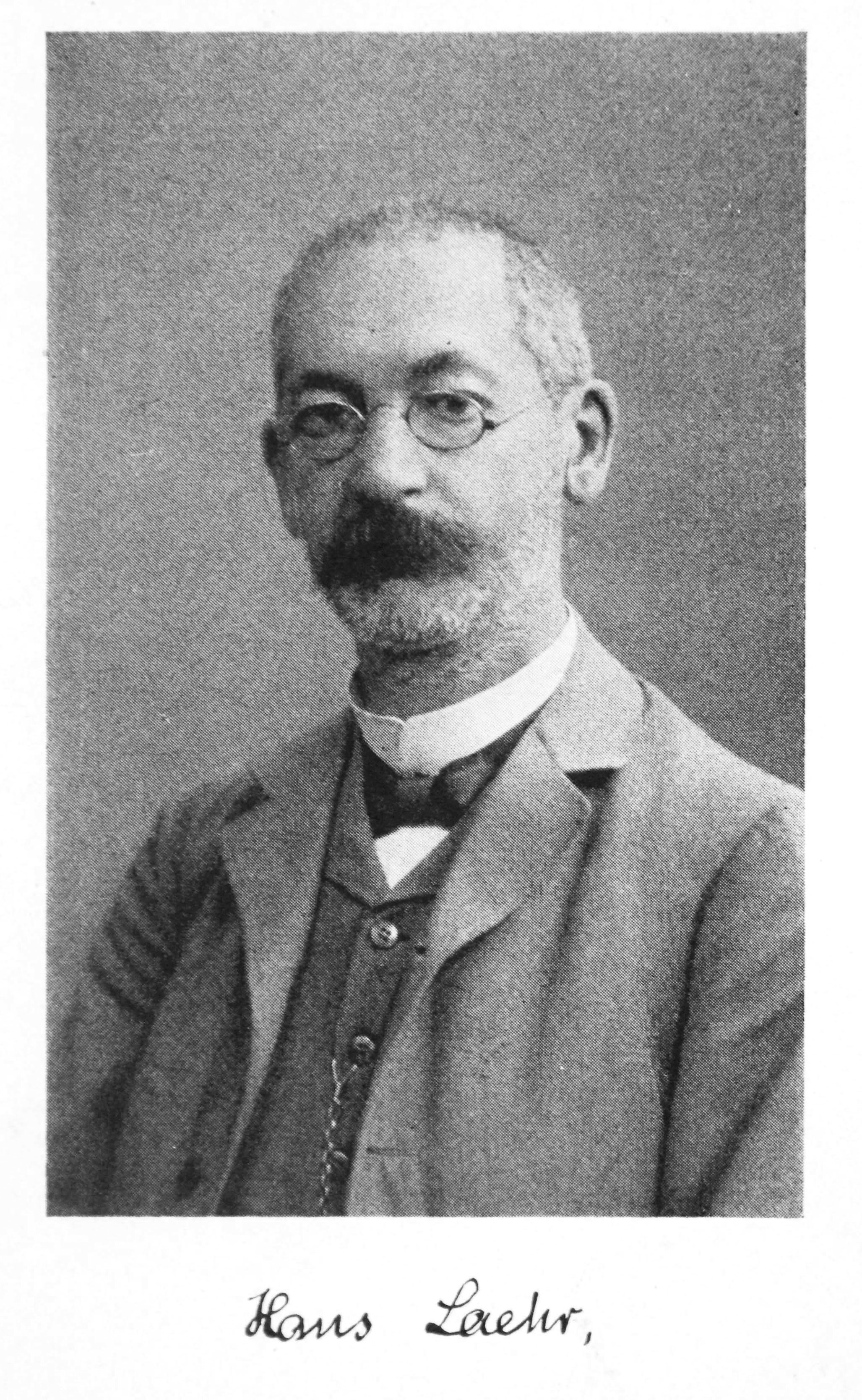 Hans Laehr (1856-1929), German psychiatrist